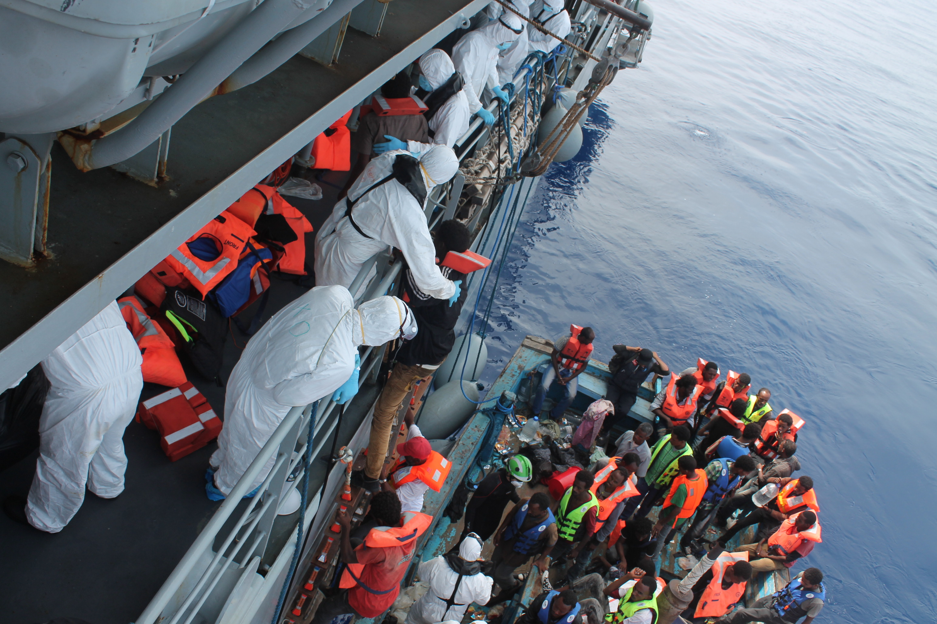 P31 L.É. Eithne patrol vessel (Irish Naval Service) during Operation Triton on 15 June 2015 at 50 & 70 km's NW of Tripoli (Libya)